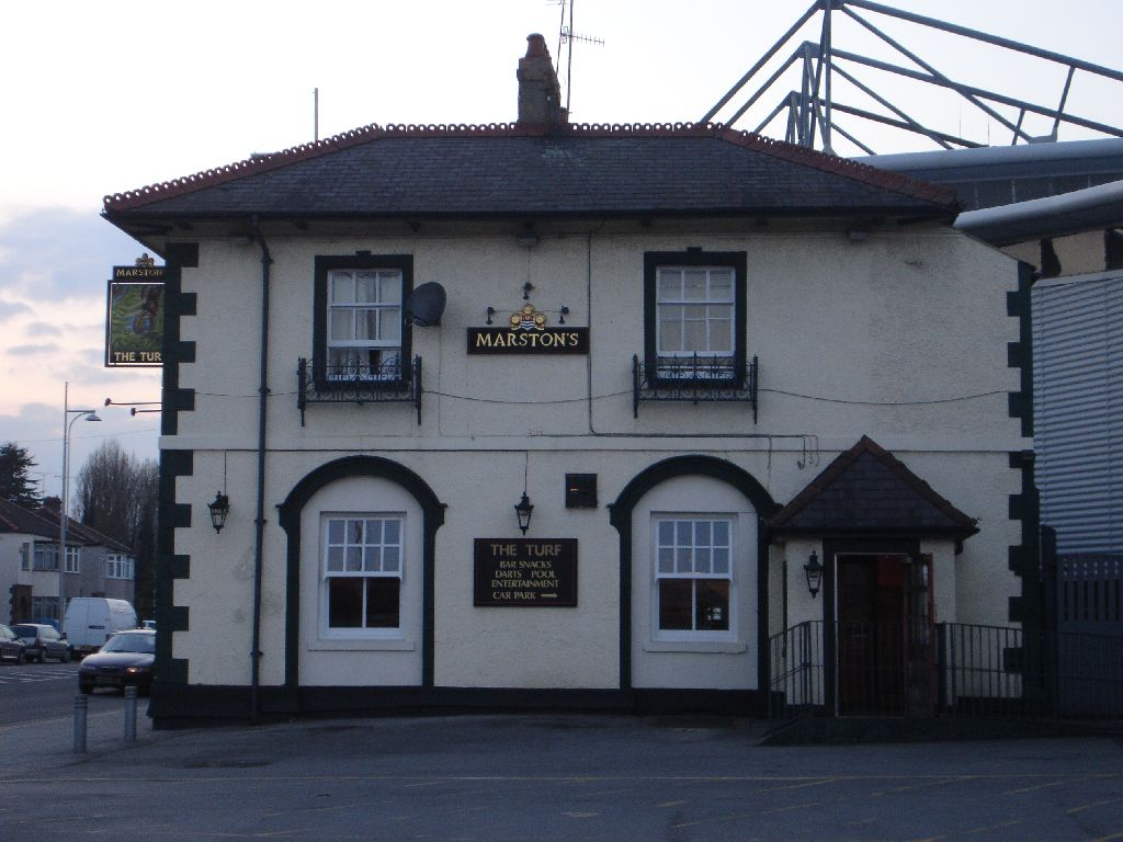 The Turf Hotel at Wrexham AFC's Racecourse Ground